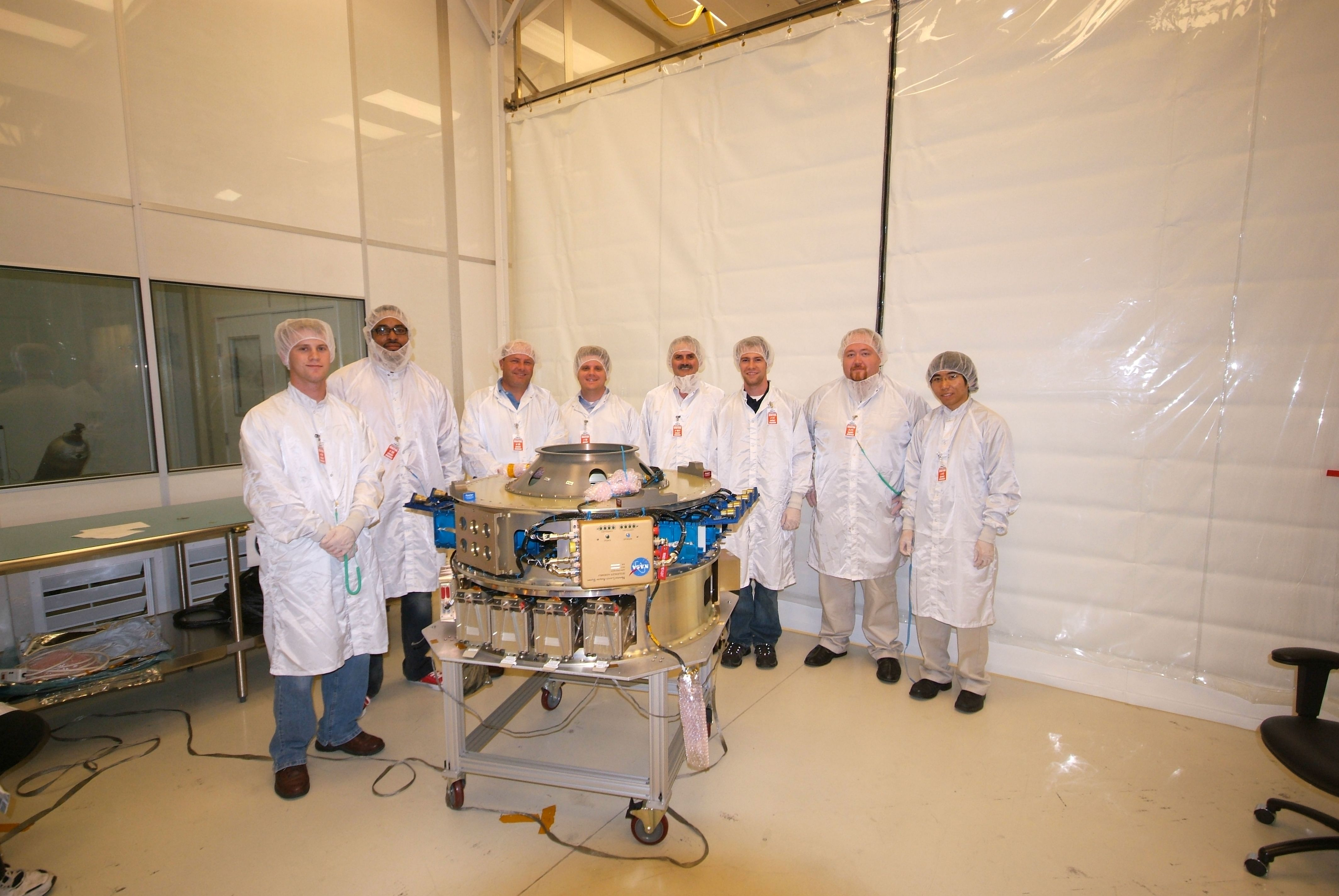 DRAGONSat and USNA Midshipmen during payload integration